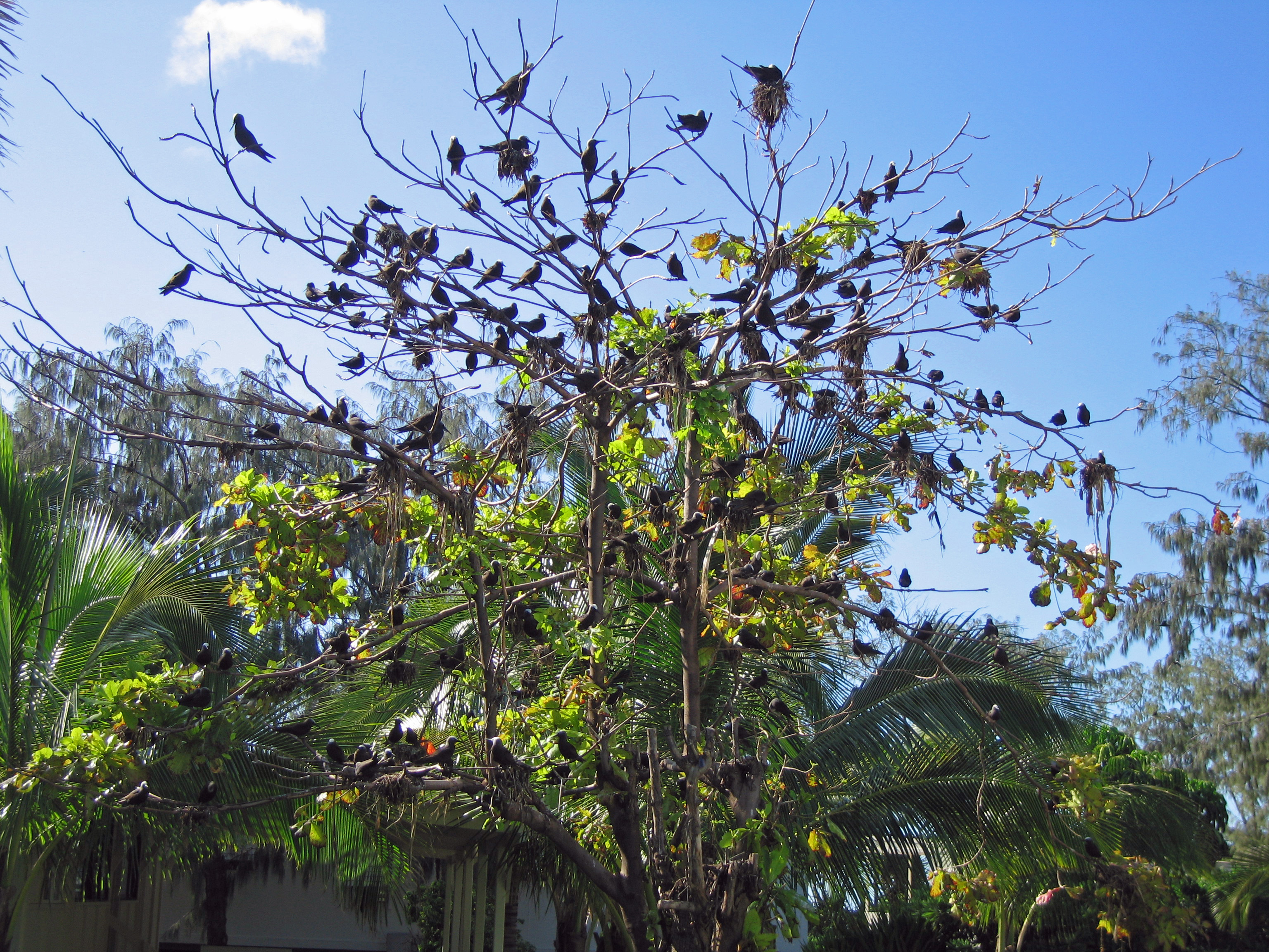 Bird Tree, Lady Elliot Island, Queensland